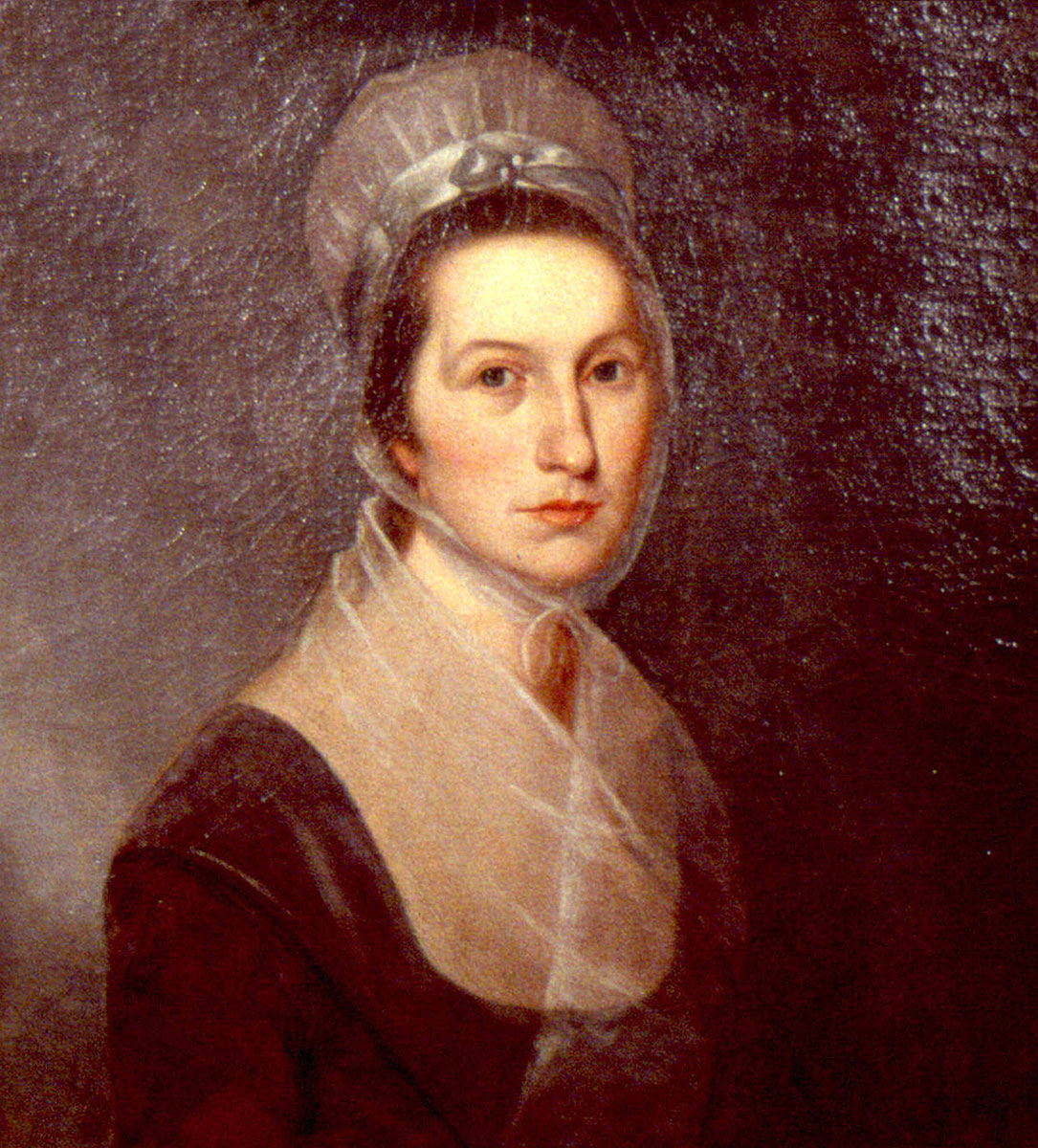 c. 1805 After Rembrandt Peale In 1782, Charles Ridgely Carnan married Priscilla Hill Dorsey (1762-1814), the youngest sister of his uncle Capt. Charles Ridgely’s wife, Rebecca Dorsey Ridgely. The first two mistresses of Hampton were sisters. During her 22-year marriage, she bore her husband 14 children, and 11 survived to adulthood, a remarkable percentage in those days. Like her older sister, Priscilla was an ardent Methodist renowned for her piety, a trait she passed on to most of her eight daughters. The restrained style of her clothing as seen in this portrait further reflects her Methodist views. The painting at Hampton is an early 19th century copy of the original by Rembrandt Peale, now owned by the State of Maryland and exhibited at the Governor’s Mansion in Annapolis. Oil on canvas. H 75, W 62.2 cm Hampton National Historic Site, HAMP 1094